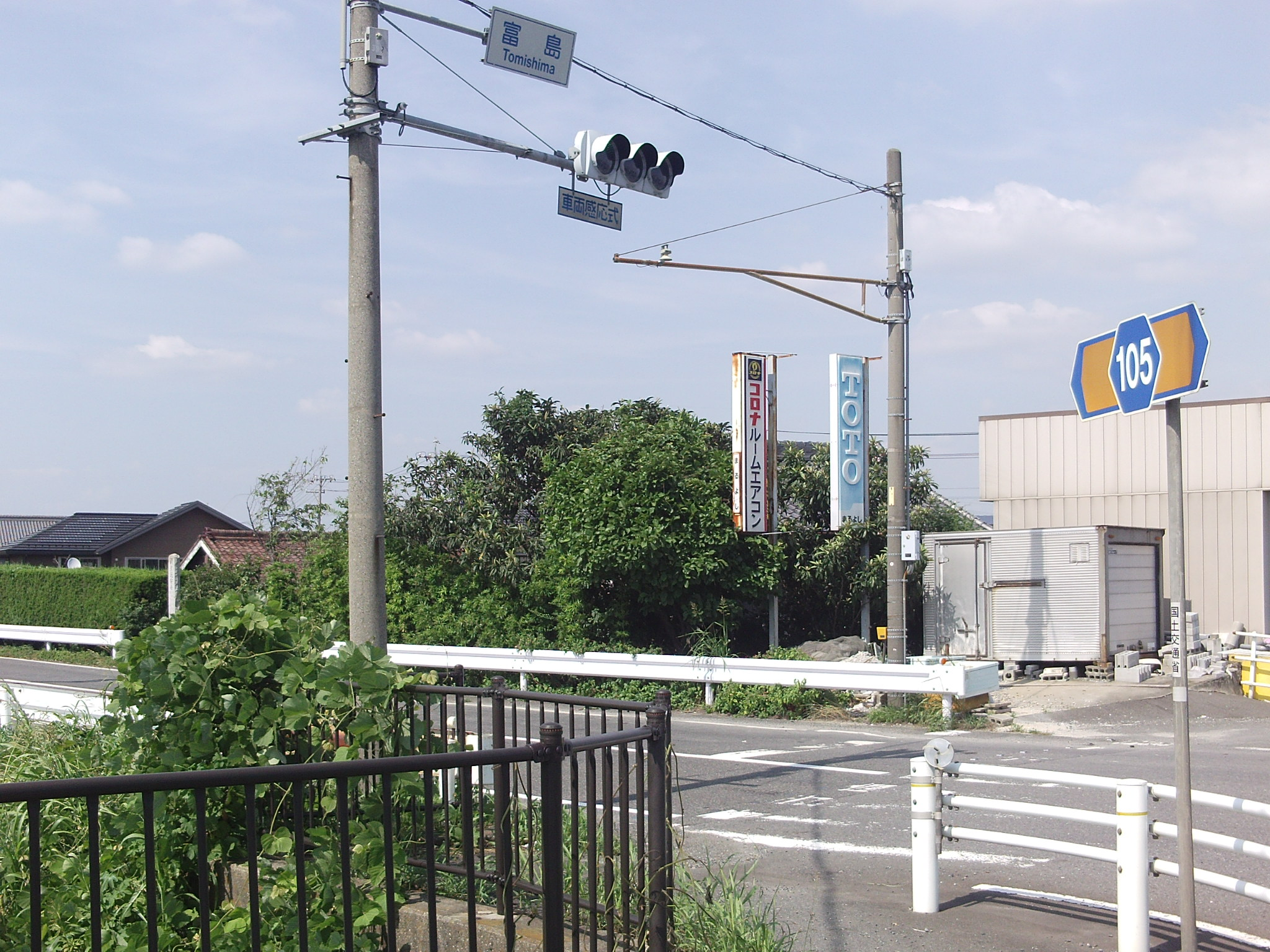 Aichi prefectural road No.105 in Tomishima, Yatomi, Aichi.